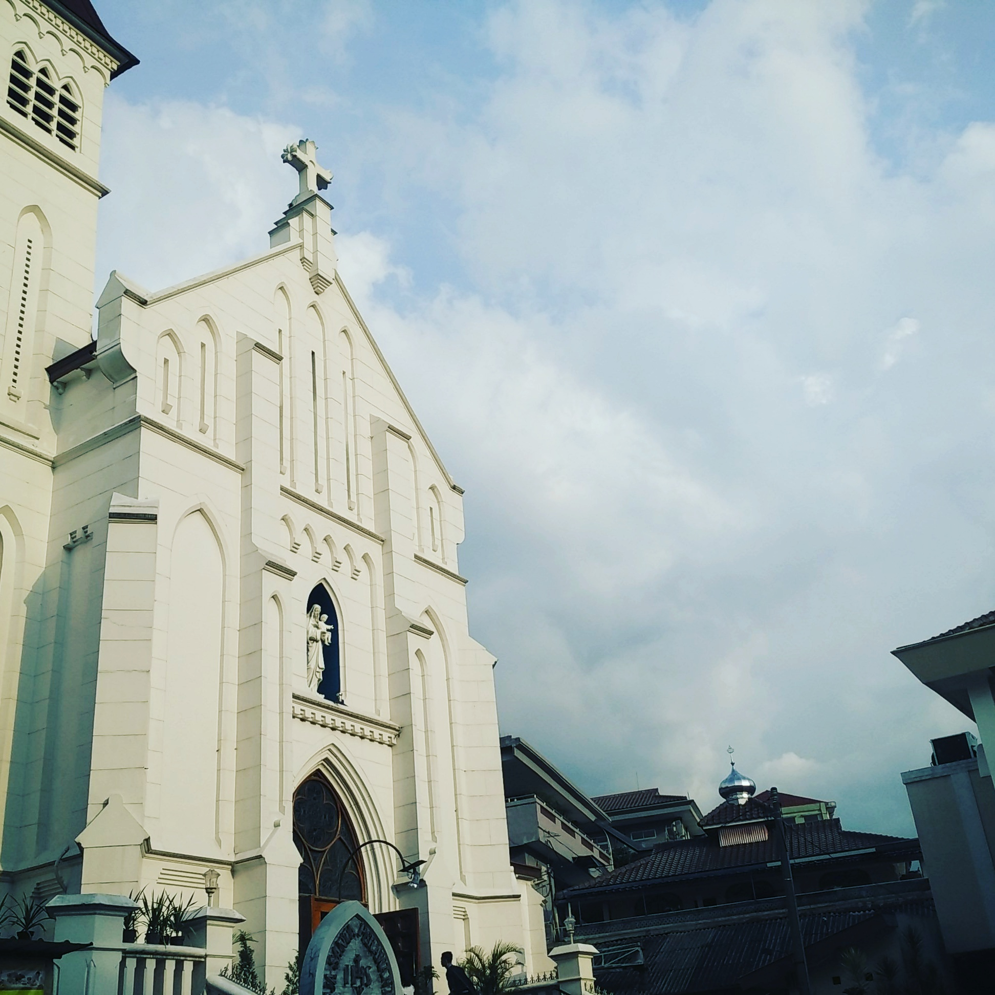 Bogor Cathedral